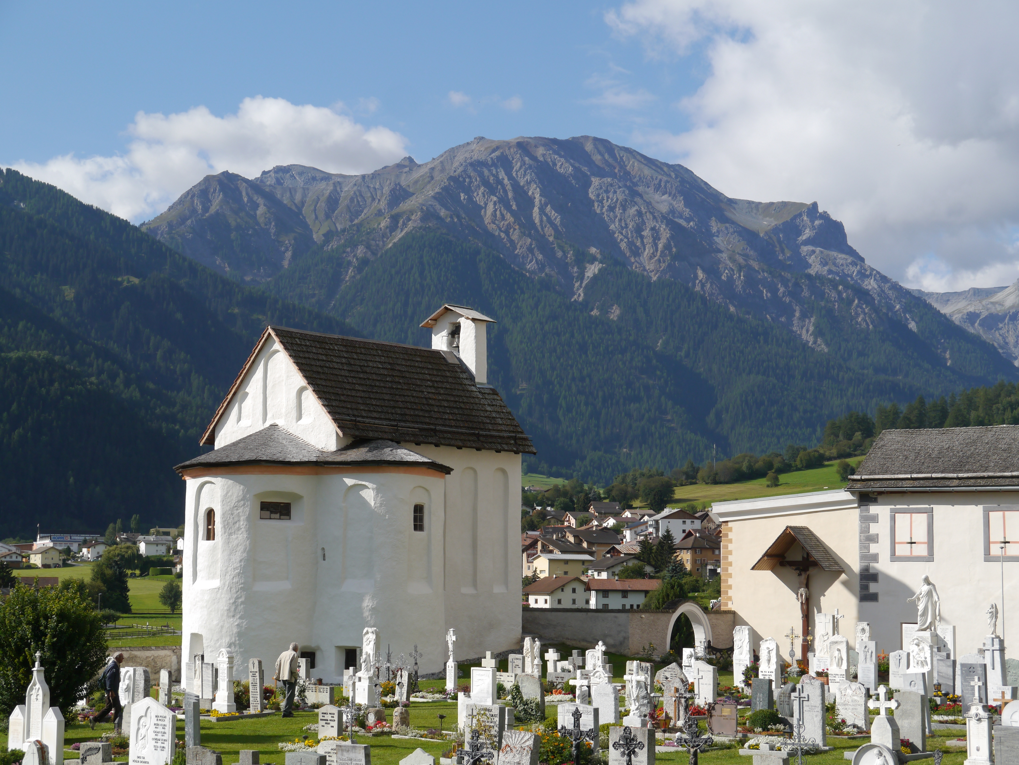 Chapel at St. John Monastery, Müstair, Canton of Graubünden, Switzerland